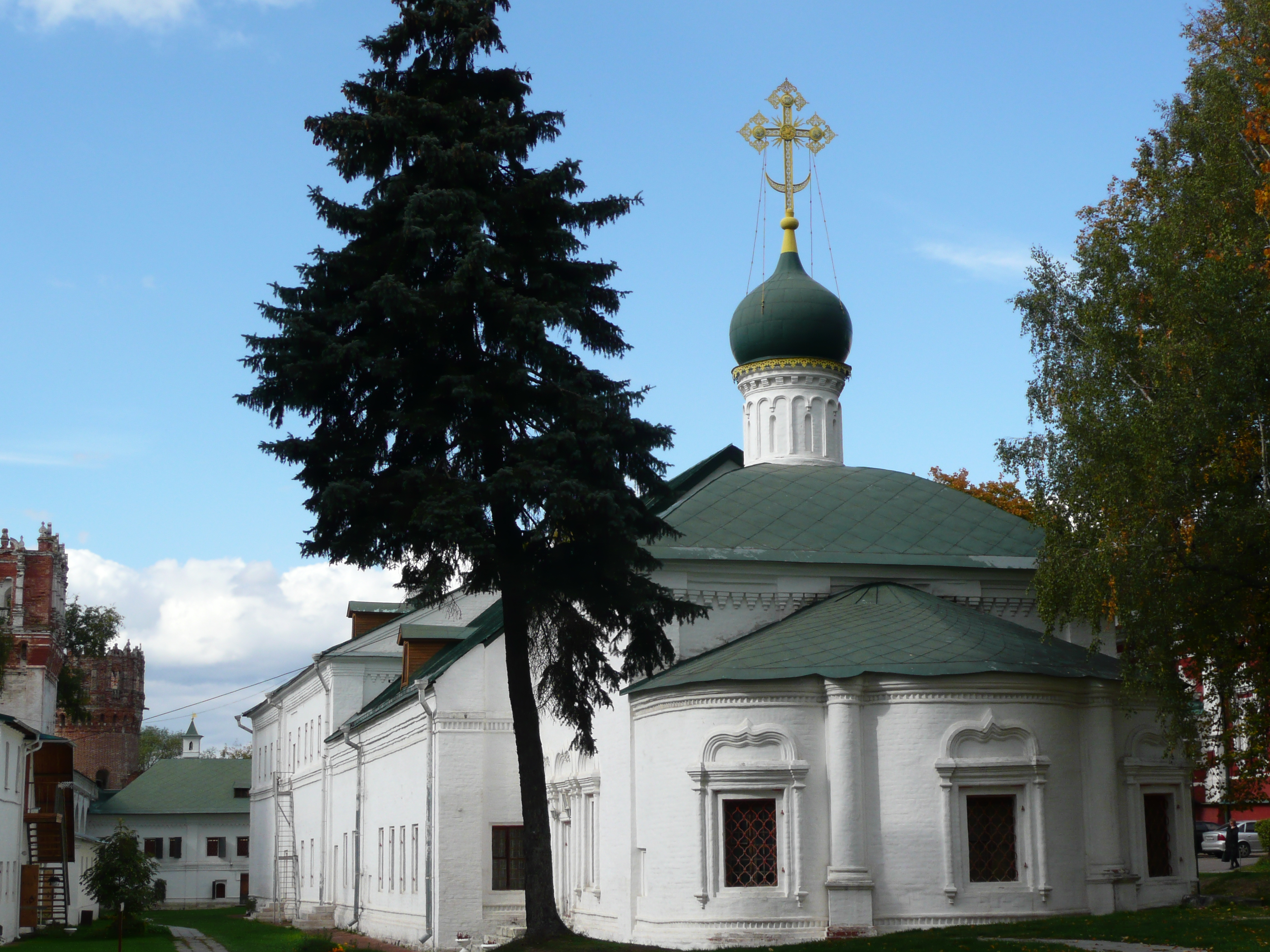 The Hospital Church of St. Ambrose, Moscow